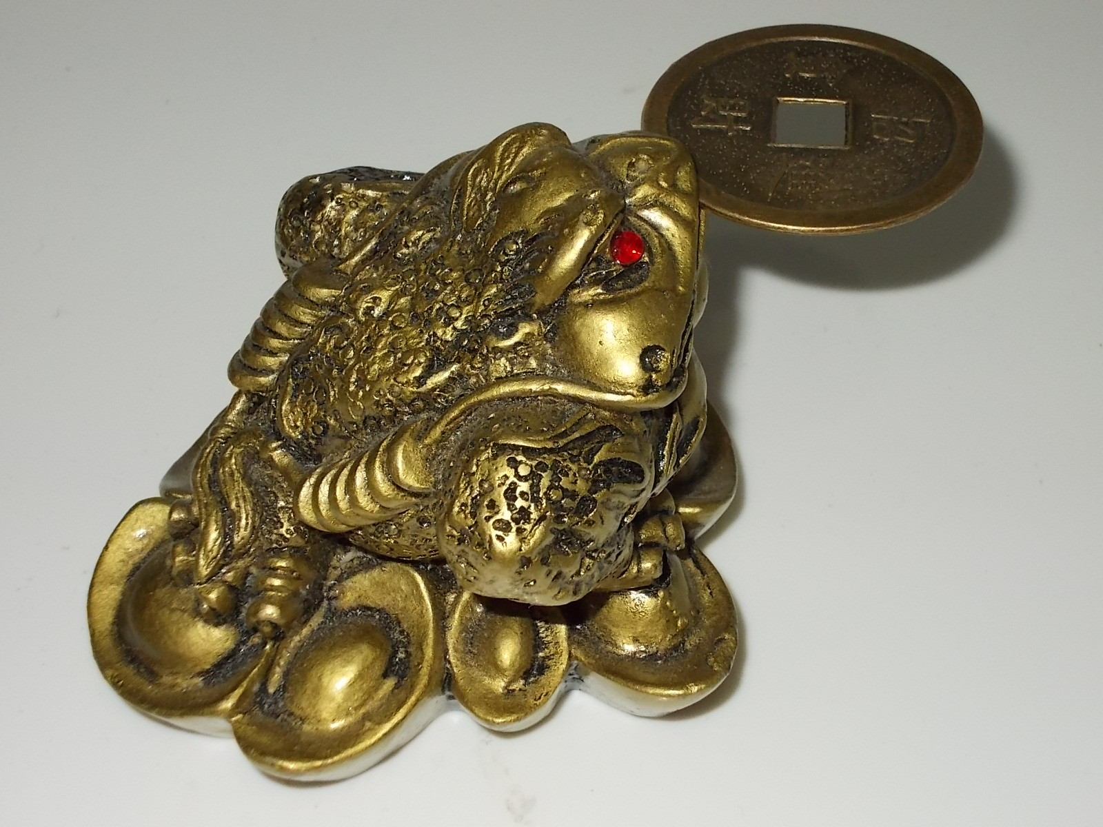 A money frog